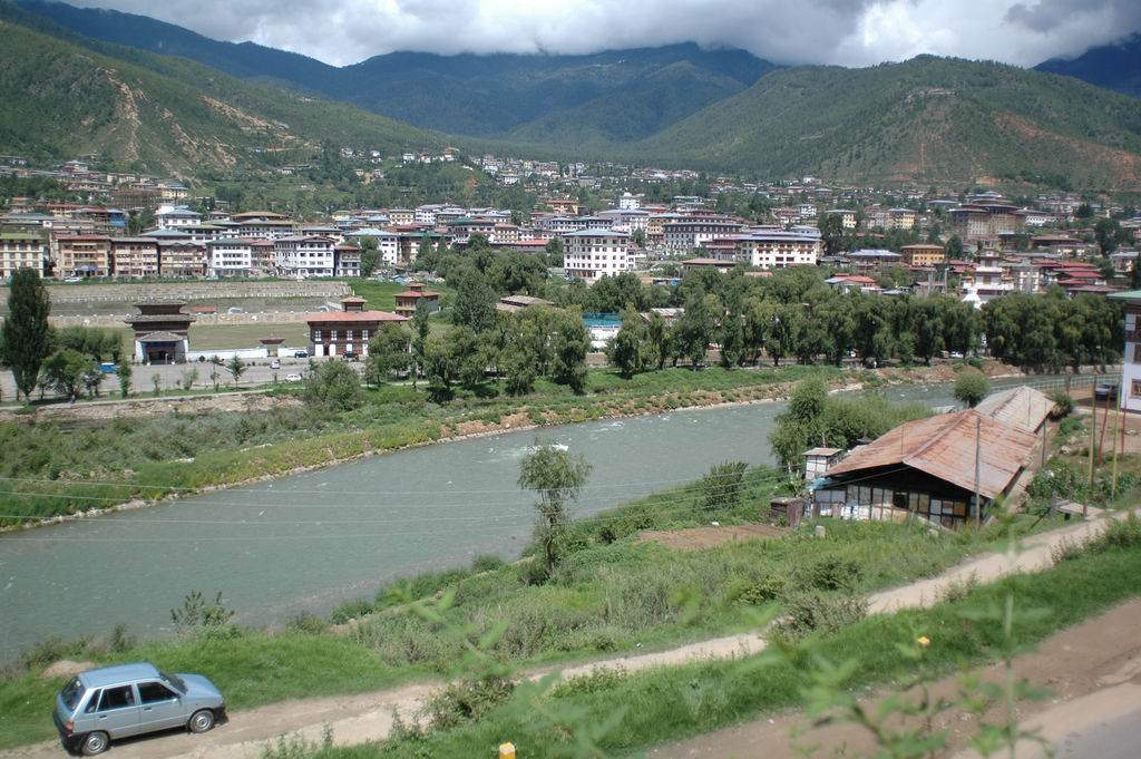 View of Thimphu from the east, Yangchenphug district.